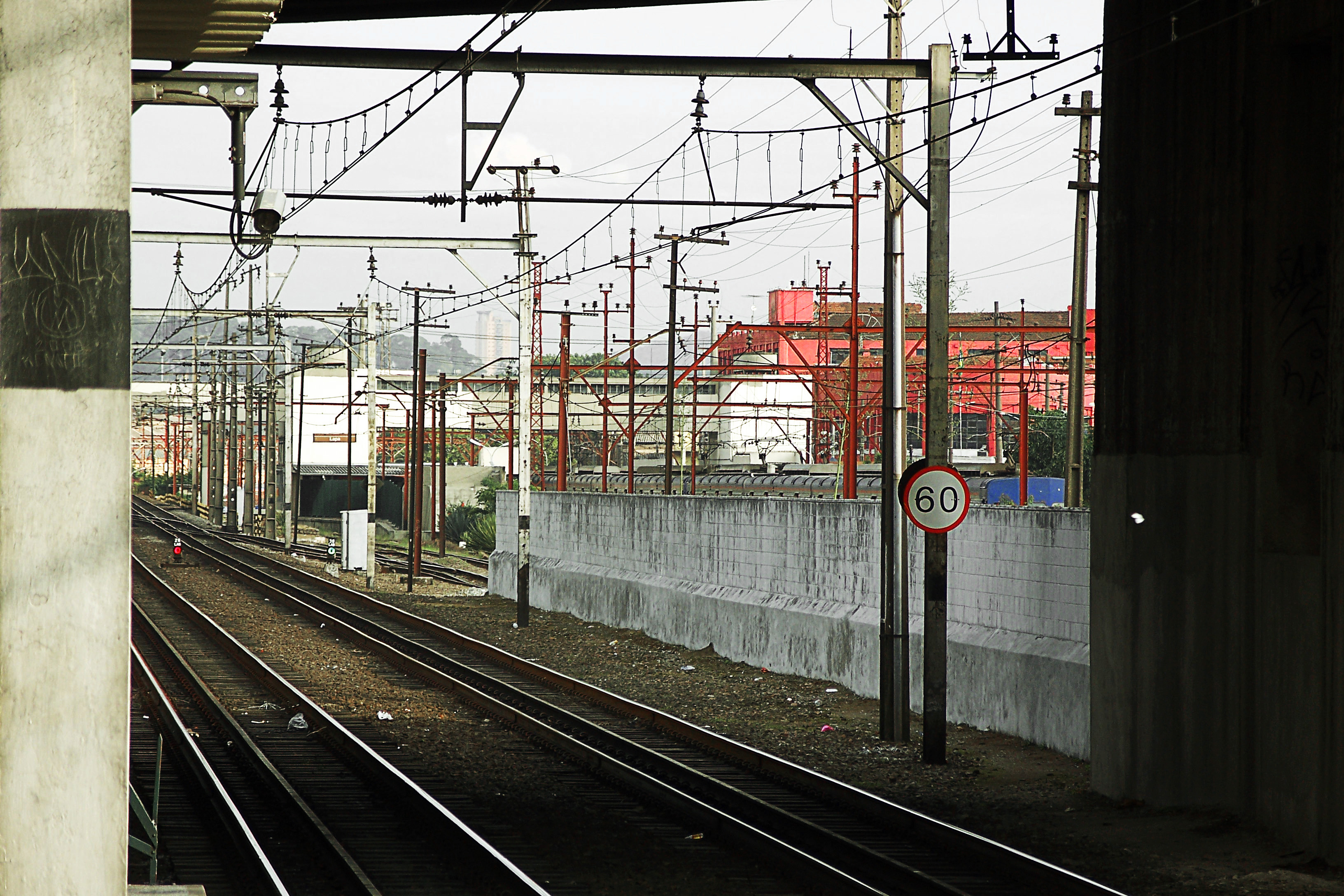 Lapa station at Line 7 viewed from Lapa station at Line 8. The stations are separated by about 500 meters.